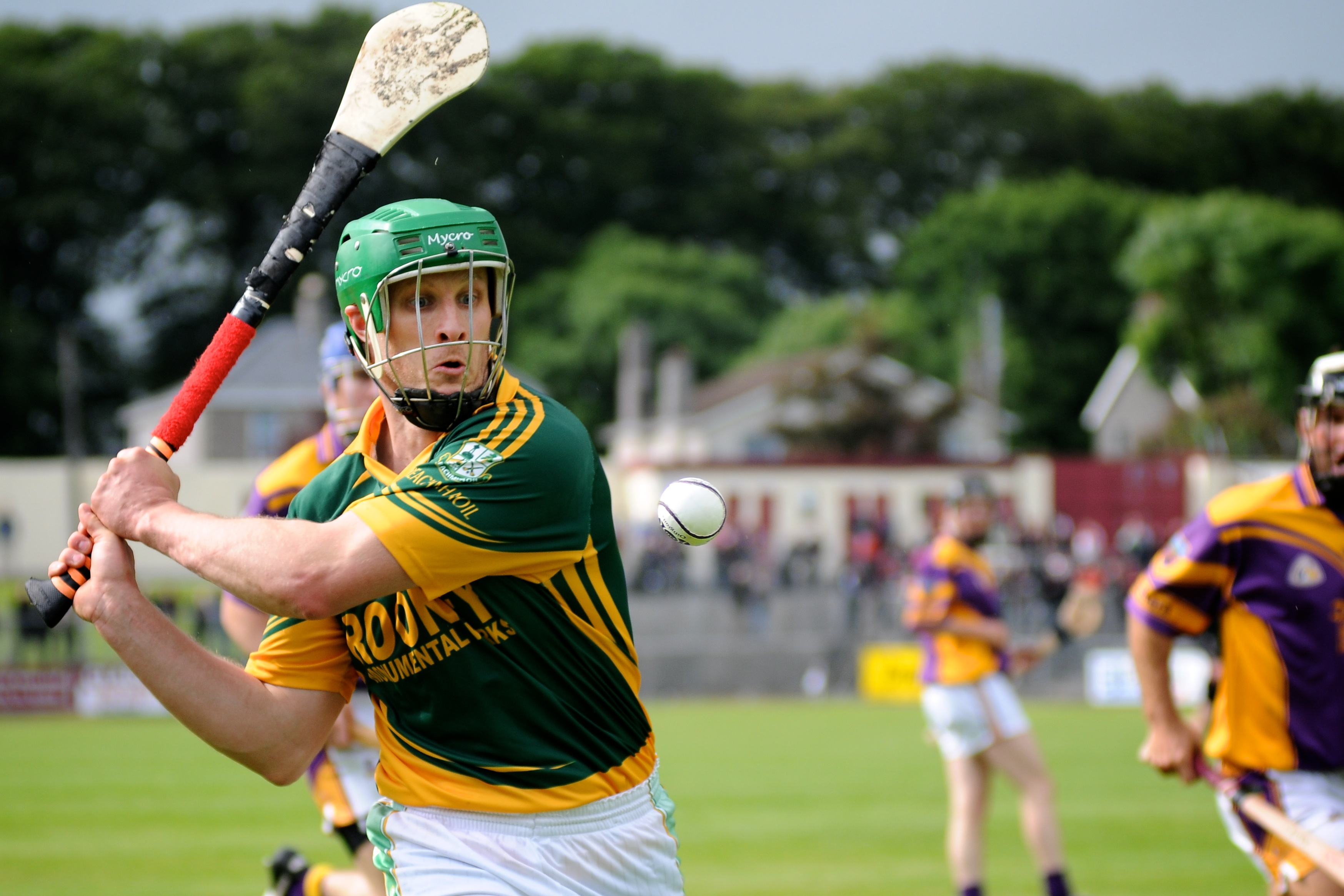 Fergal Healy in action for Craughwell against Kinvara in the 2013 Galway Senior Hurling Championship